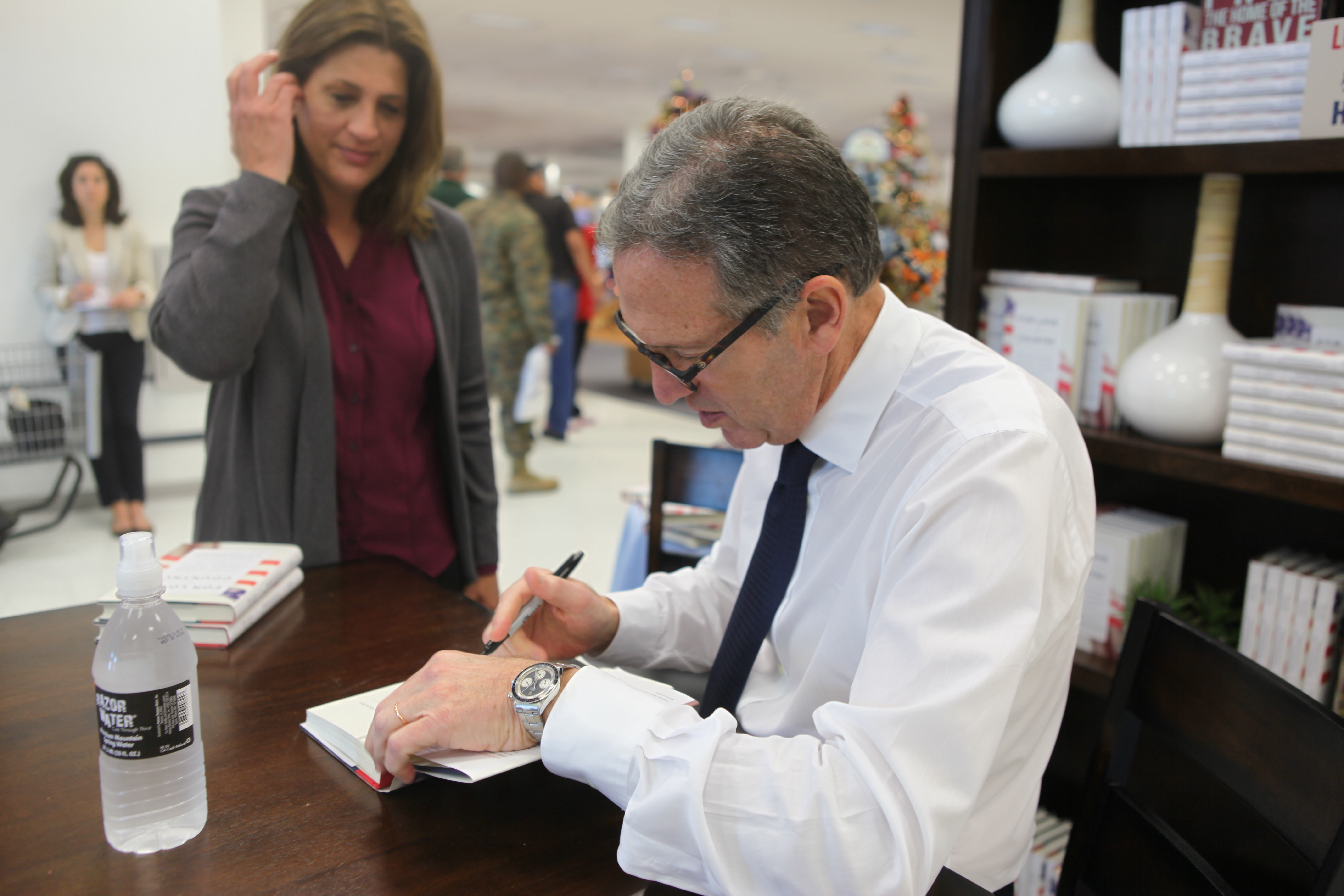 Howard Schultz, the chief executive officer of Starbucks, signs a copy of his book, “For Love of Country,” for a guest after delivering a speech during his visit to Marine Corps Base Camp Pendleton, Calif., Nov. 13, 2014. Unit: I Marine Expeditionary Force DVIDS Tags: Marine Corps Base Camp Pendleton; U.S. Marine Corps; Combat correspondent; I MEF; 1st Marine Division; I Marine Expeditionary Force; sailors; Marines; Calif.; Del Mar Area; Lance Cpl. April Price; Starbucks CEO